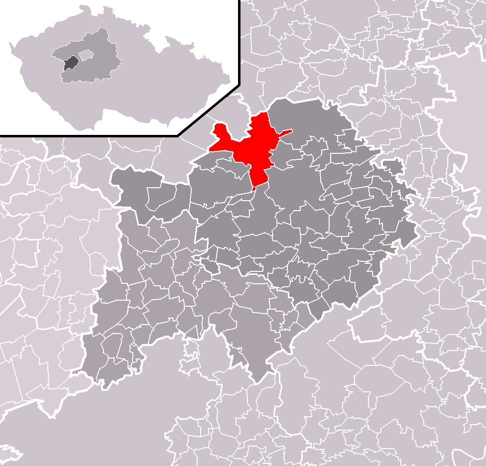 Location of Nižbor municipality within Beroun District and administrative area of Beroun as a Municipality with Extended Competence.